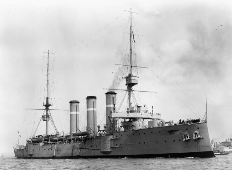 British Monmouth class armoured cruiser HMS CUMBERLAND